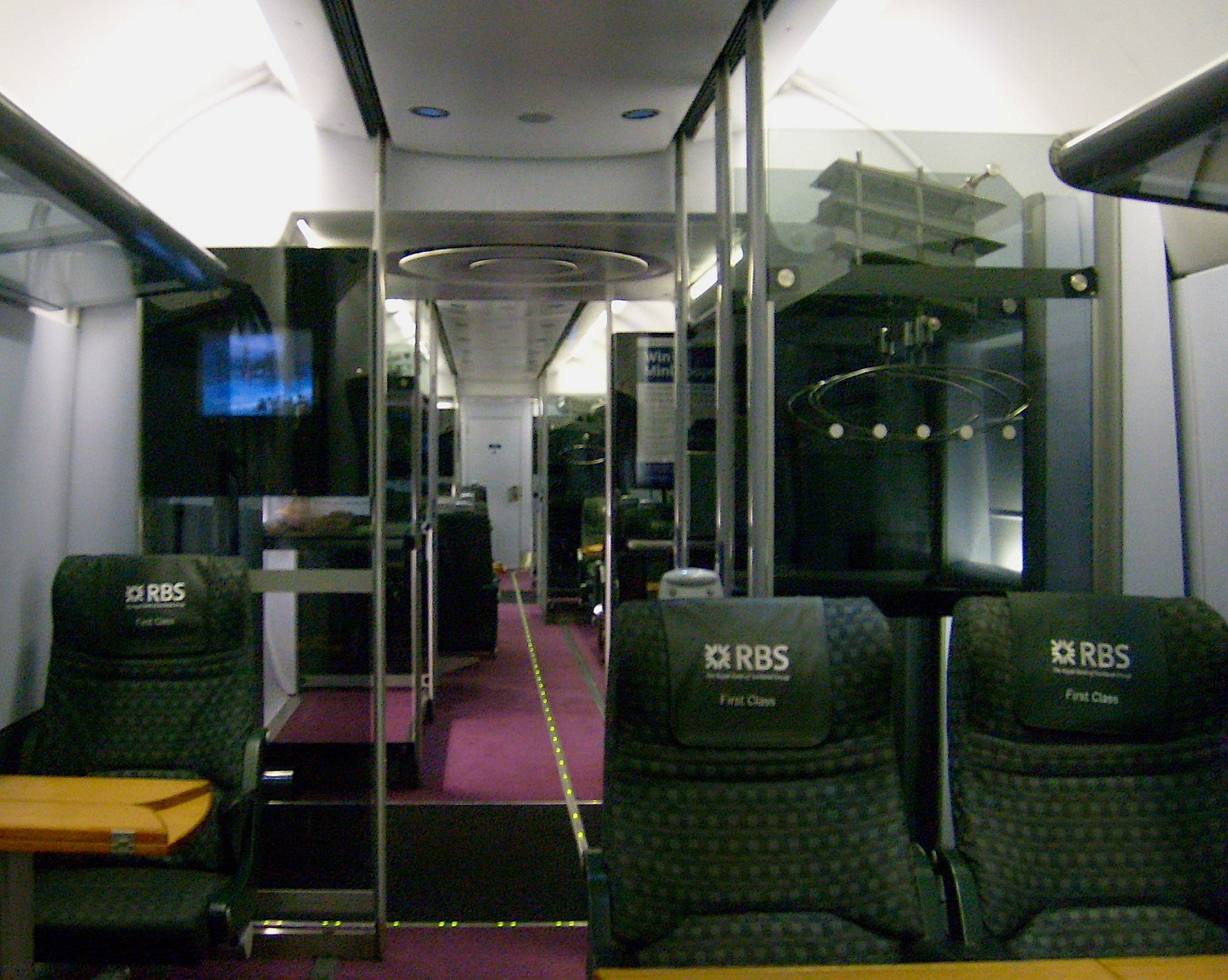 First Class interior aboard Heathrow Express Class 332 DMFO vehicle